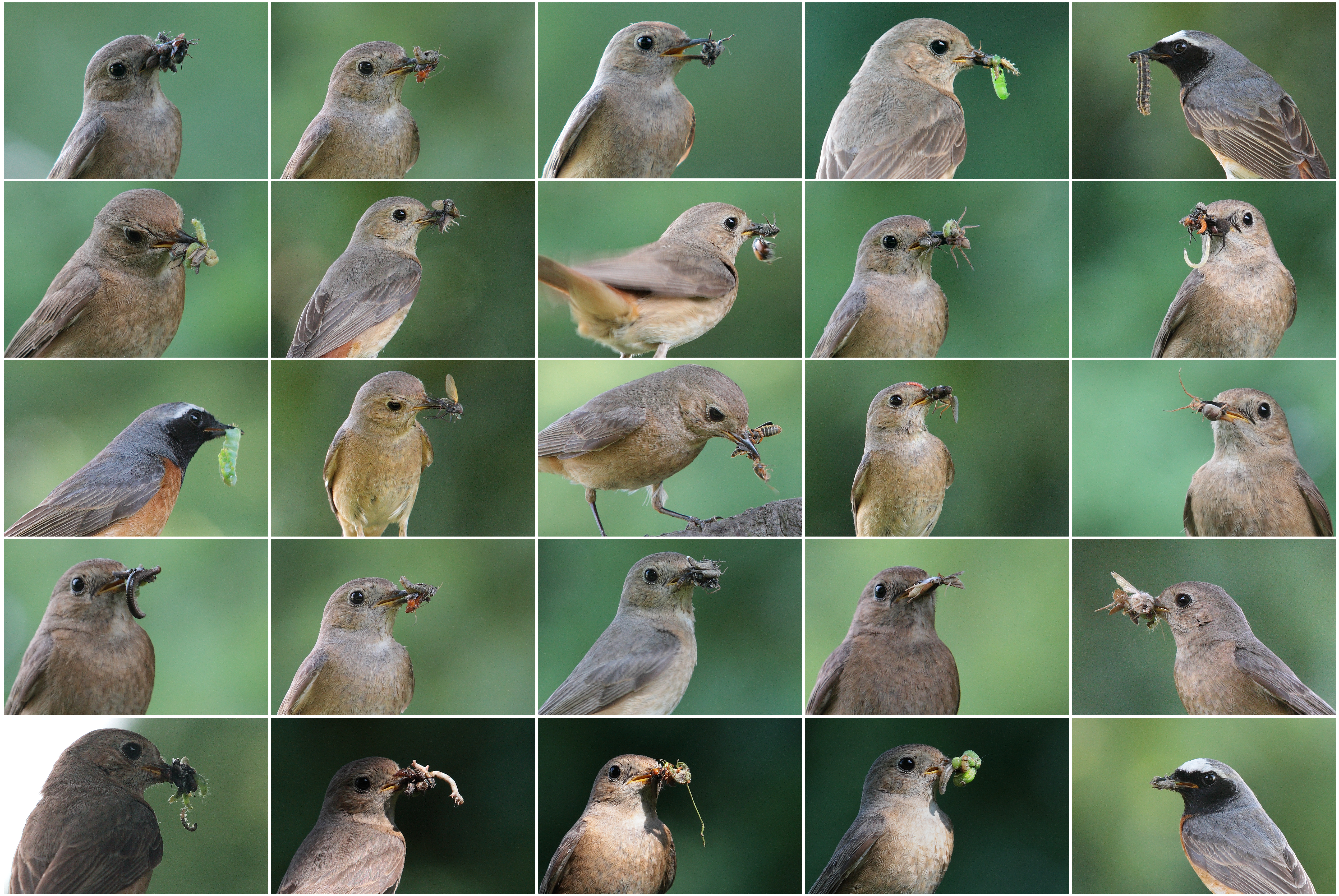 Common Redstart (Phoenicurus phoenicurus) diet and feeding